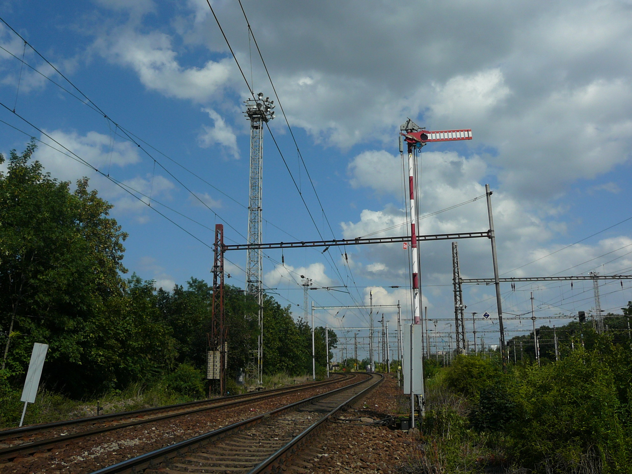 Mechanical block semaphore "So" in "on" position (stop!) of the signalbox "Železný most" in Prague, Vršovice on the railway line No. 221 Prague - Benešov u Prahy - České Budějovice (Budweis). 2011.